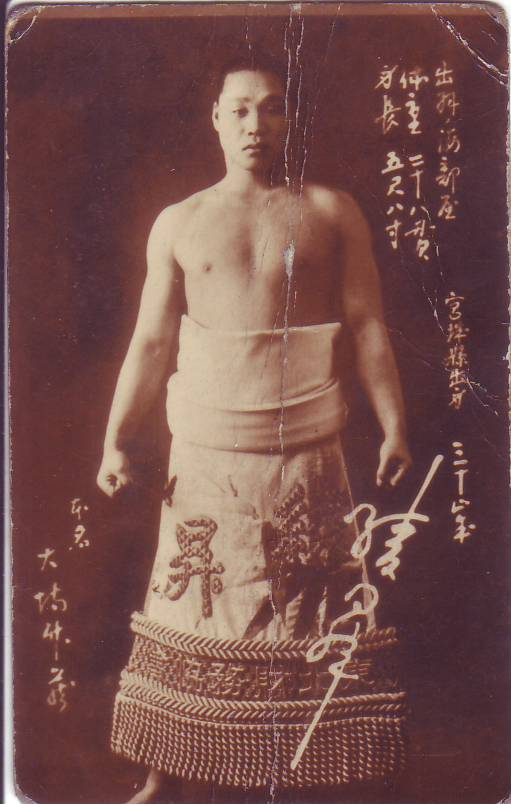 Bromide from Ayanobori Takezo (Sumo wrestler).